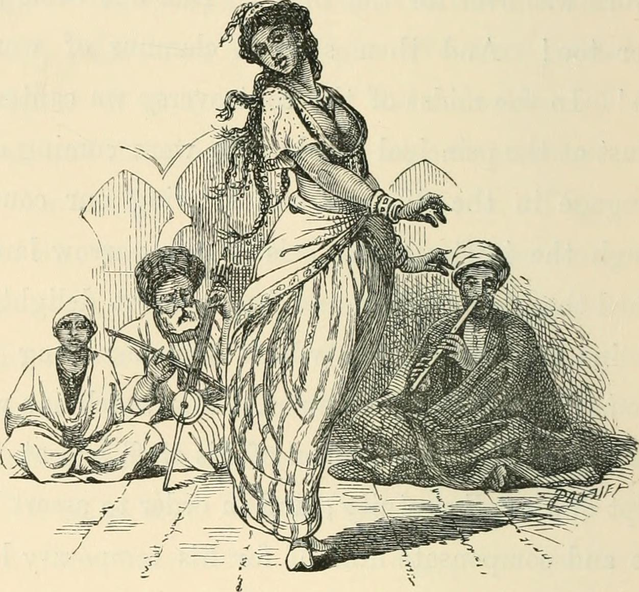 Egyptian dancer. Image from page 234 of "A diary in the East : during the tour of the Prince and Princess of Wales" (1869).